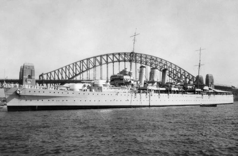 The Norfolk Class cruiser HMS DORSETSHIRE at Sydney, Australia.